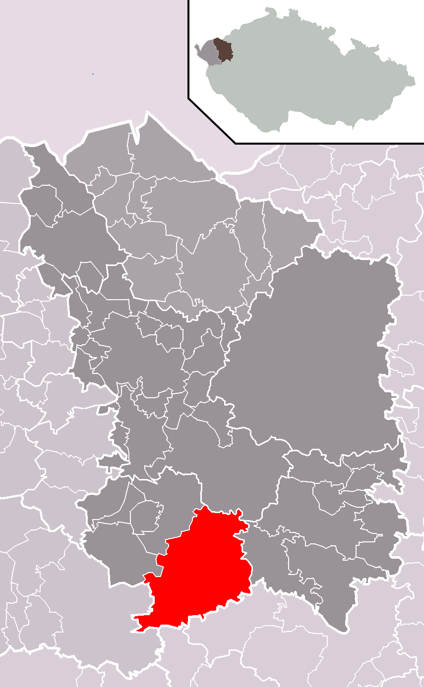 Location of Toužim town within Karlovy Vary District and administrative area of Karlovy Vary as a Municipality with Extended Competence.